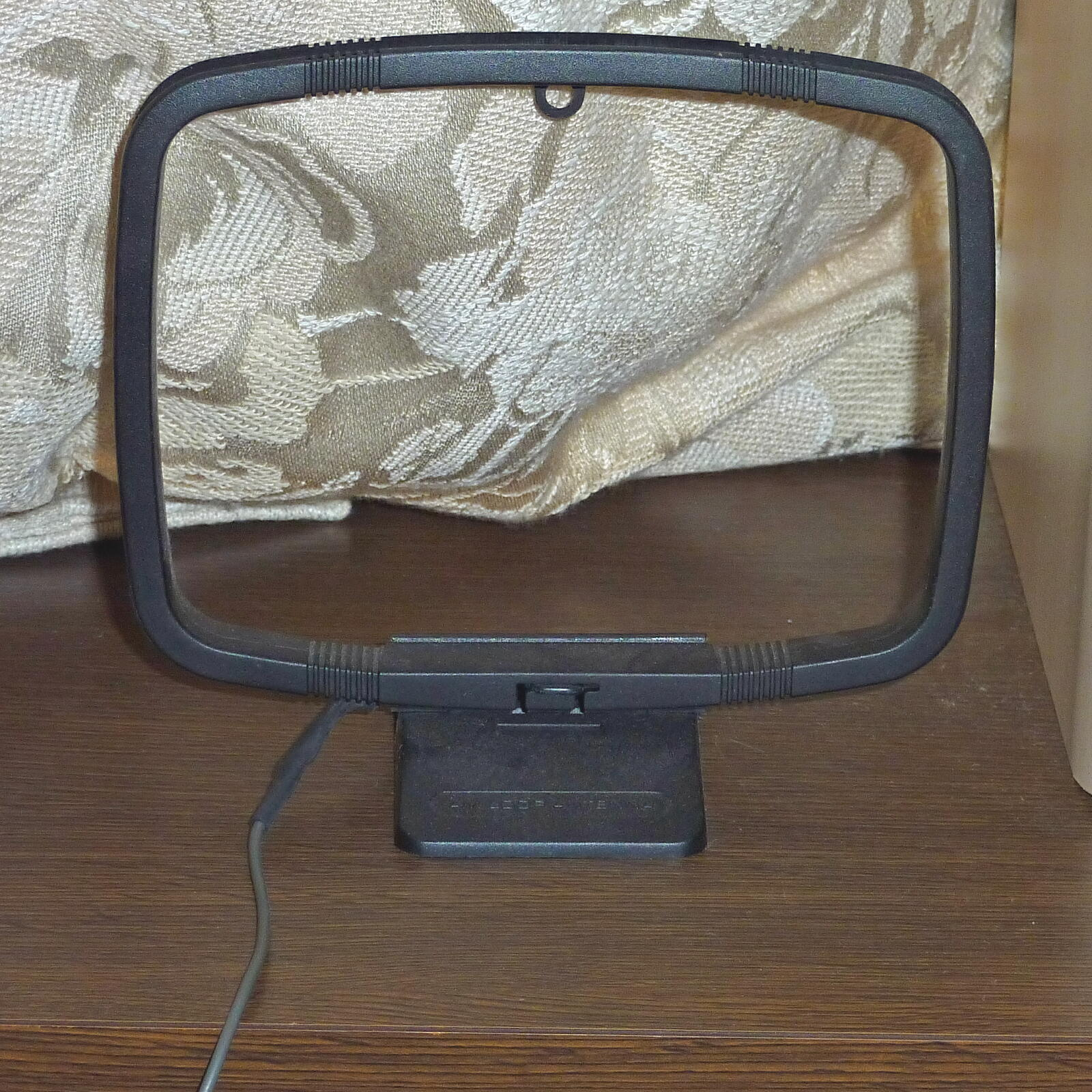 Loop UHF television antenna